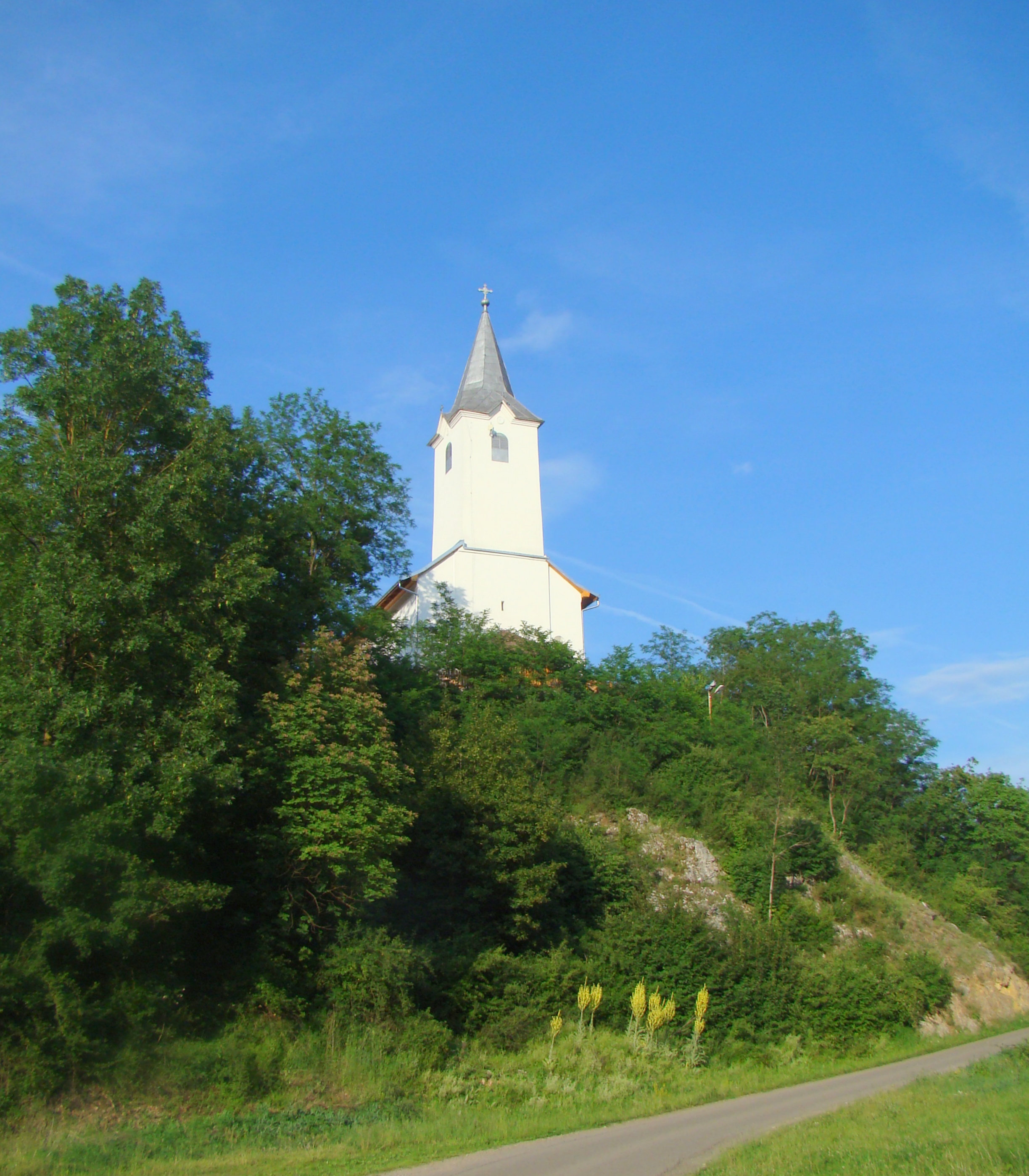 Church of the Annunciation in Trestia, Hunedoara county, Romania